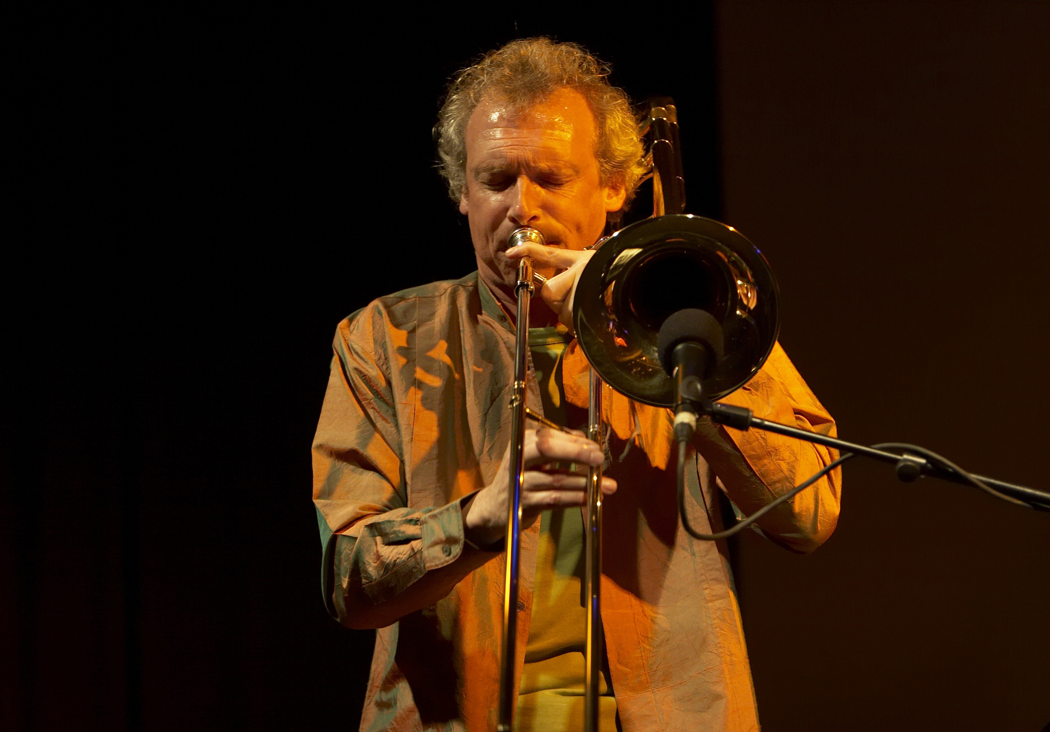 Christian Muthspiel playing trombone